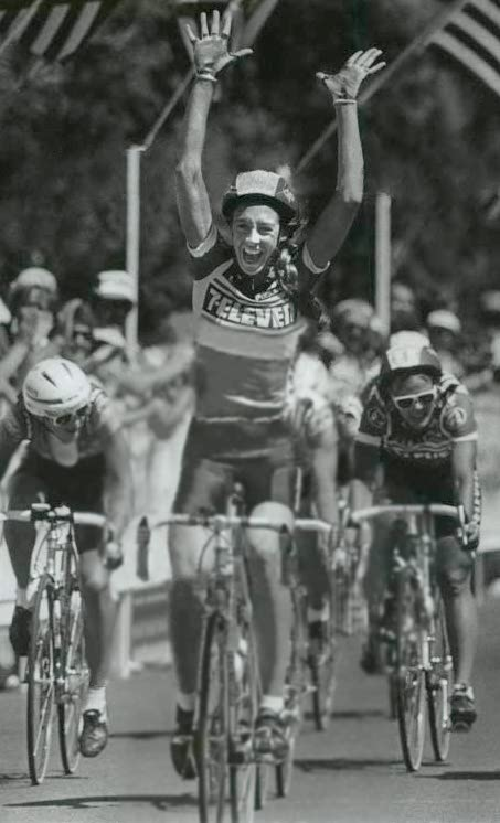 Historic Images - 1988 Press Photo Bicycle Racing Olympic Trials Inga Benedict